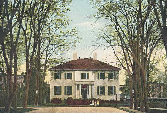 The Governor's Mansion, Richmond, VA; from a c. 1905 postcard published by The Hugh C. Leighton Company of Portland, Maine. Built in 1813, the building was designed by Alexander Parris.